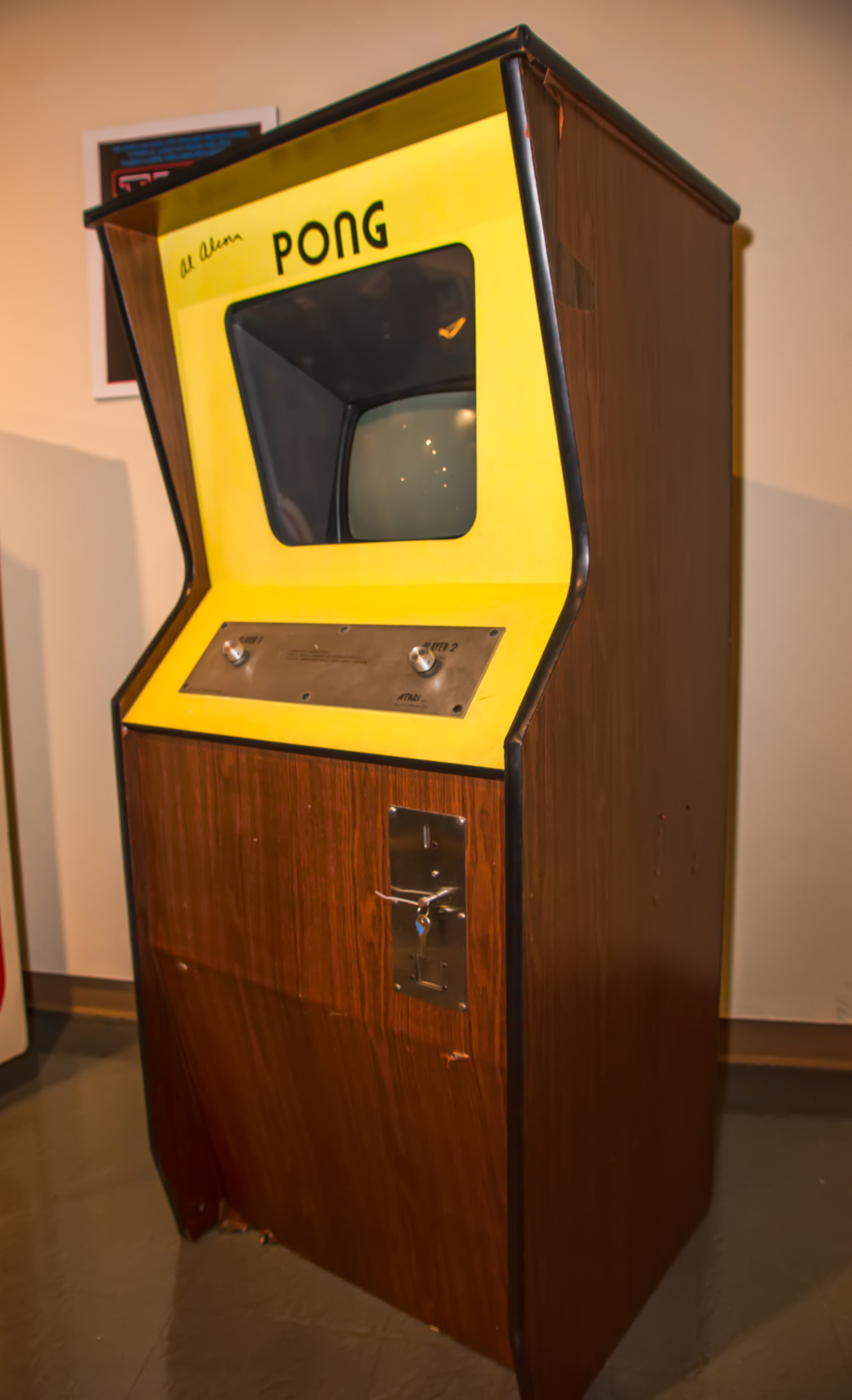 Pong cabinet signed by Pong creator Allan Alcorn in the 'Golden Age of Video Games' exhibit at Neville Public Museum in Green Bay, Wisconsin.